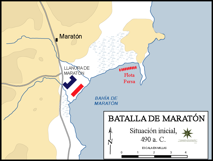 Map of the initial situation in the battle of Marathon. Map Courtesy of the Department of History, United States Military Academy. (labels in Spanish)